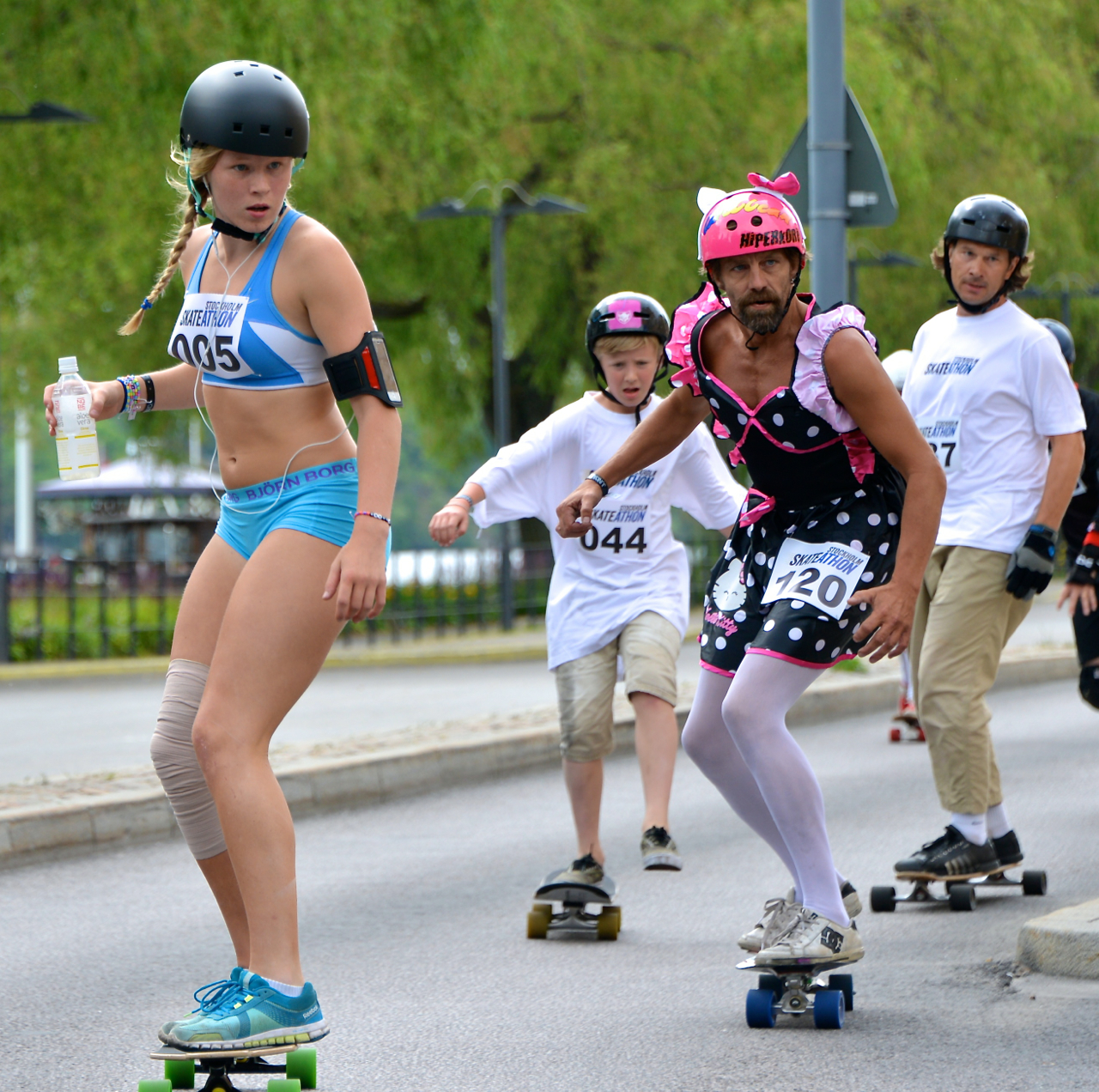 Stockholm Skateathon July 19, 2014 at Norrmälarstrand on Kungsholmen.